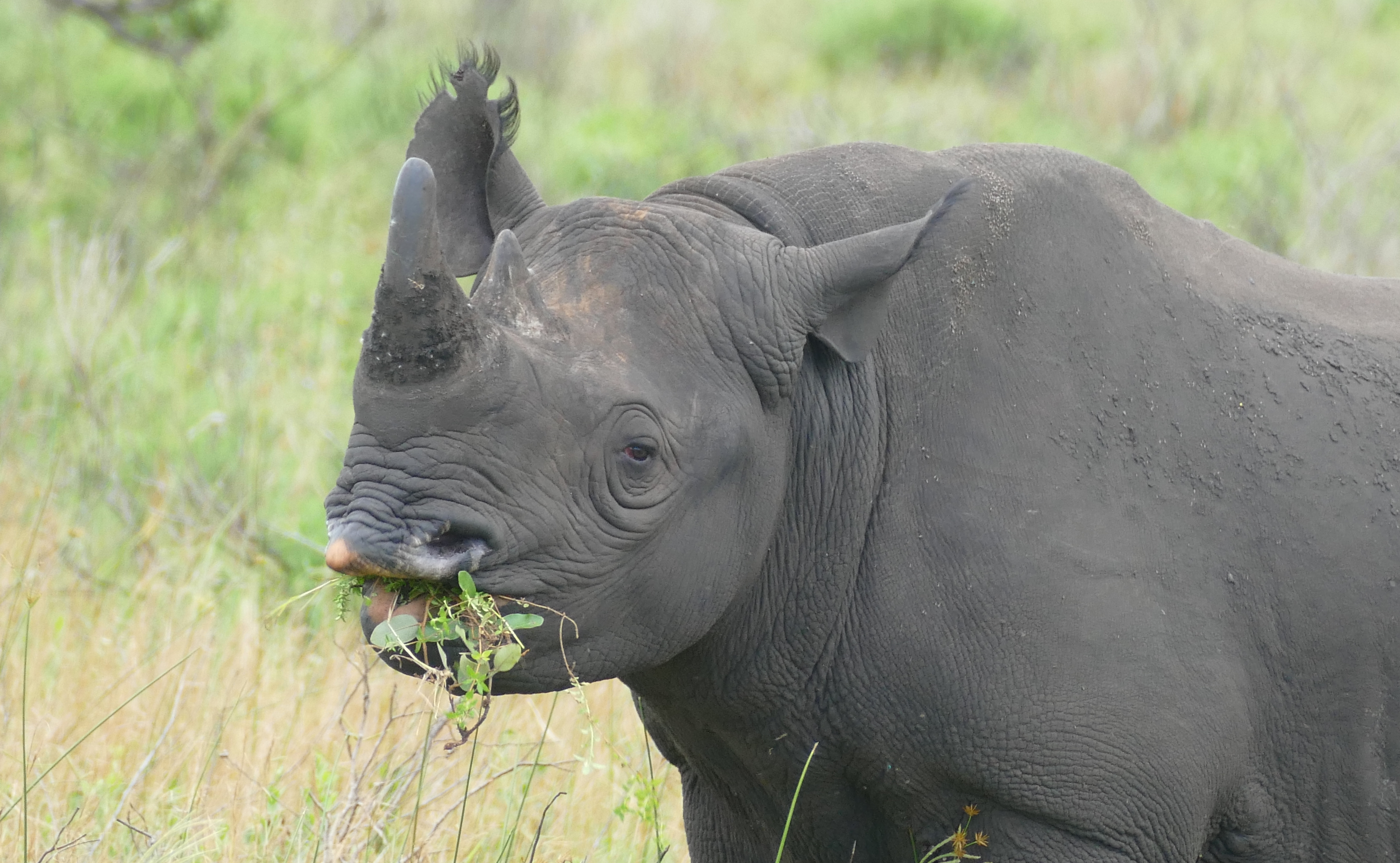 Eastern Shores, iSimangaliso Wetland Park, St Lucia, KwaZulu-Natal, SOUTH AFRICA